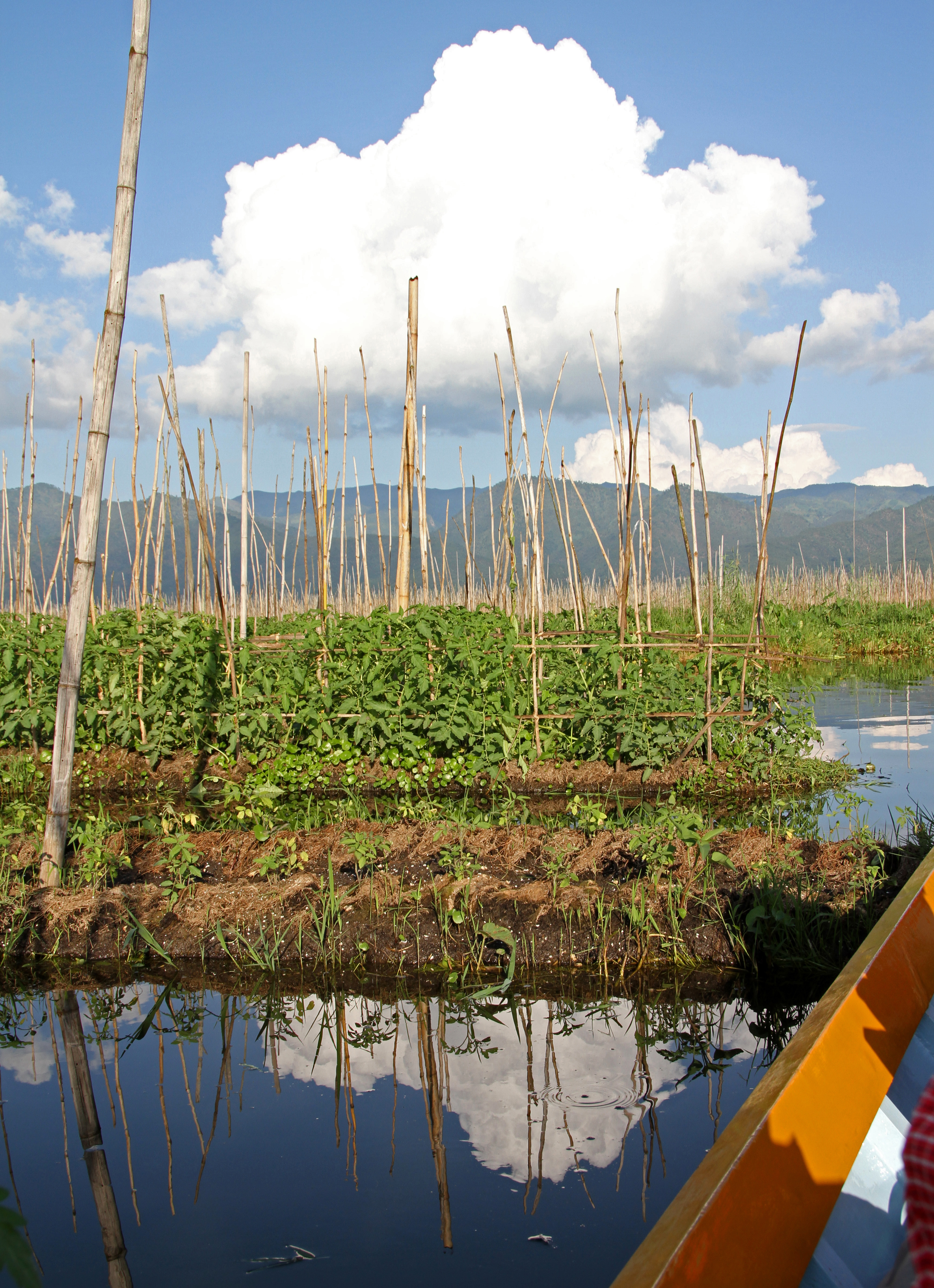 Agriculture at Inle-See in Myanmar.